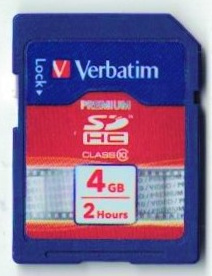 A Verbatim 4GB SDHC Card, purchased 2012-13.